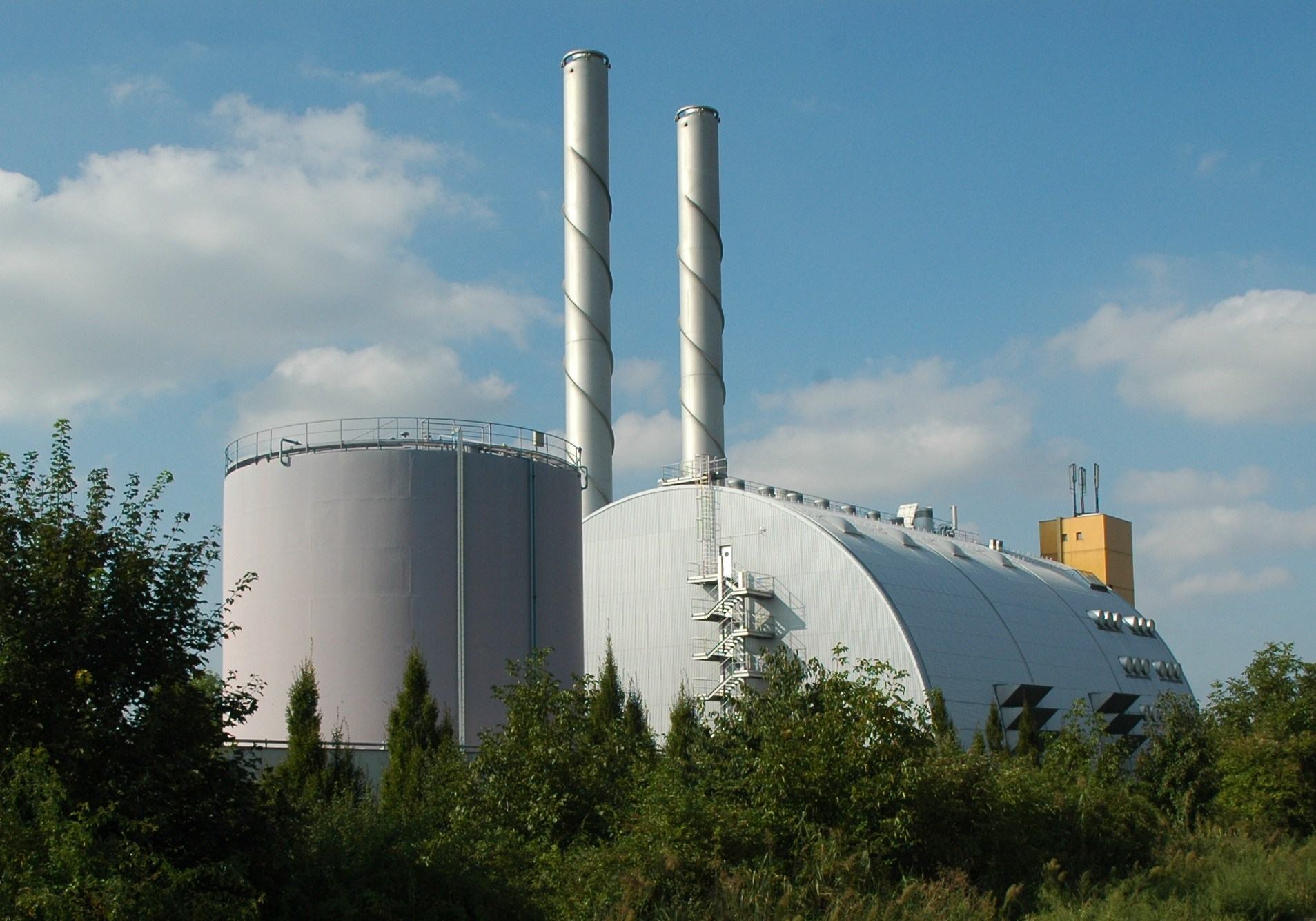 District heating plant de: Wien Energie